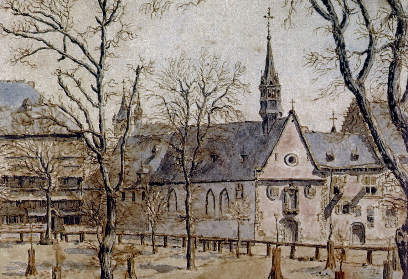 The southeastern corner of Vrijthof square in Maastricht, Netherlands, in 1671. To the right: Saint Servatius guest house and chapel. Pen drawing, washed in colour, ascribed to Valentijn Klotz. 1671. 19,2 x 26,3 cm. Collection: LGOG, Maastricht, Netherlands.